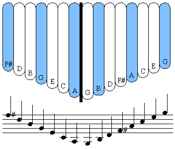 Mark Holdaway Kalimba Magic